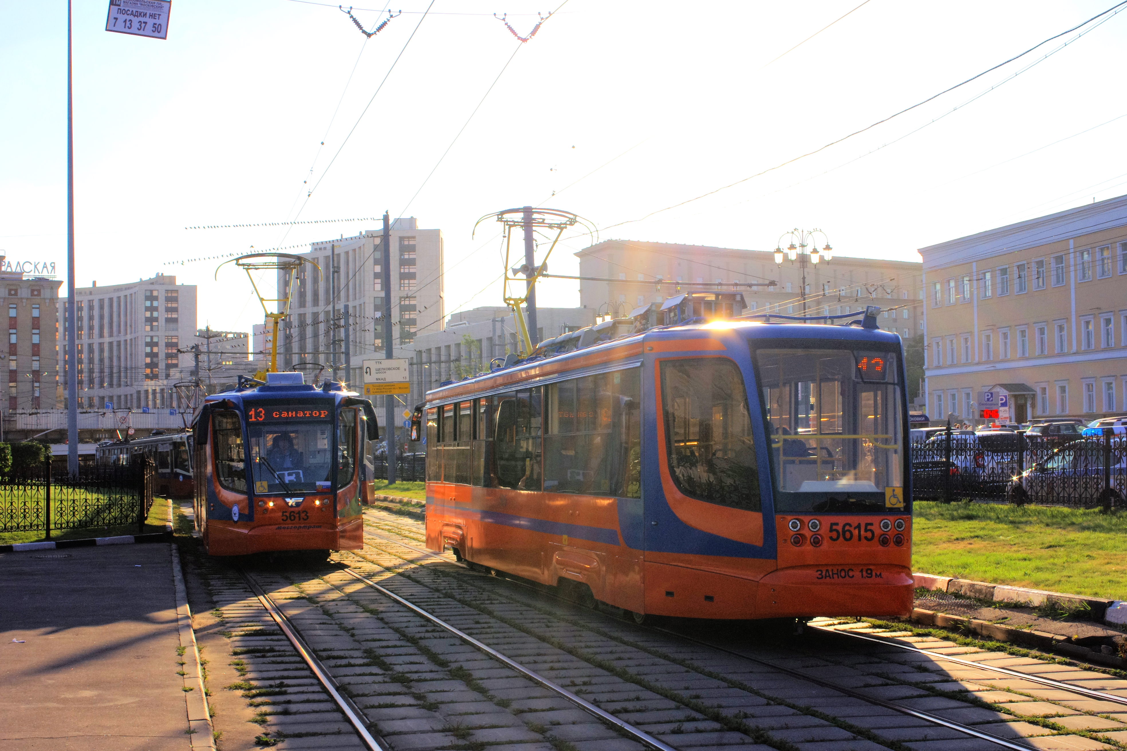 Frist month of mass work of this type in Moscow.Комсомольская площадь